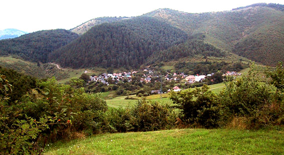 Roma village of Prislop Romania August 2006 Lily106